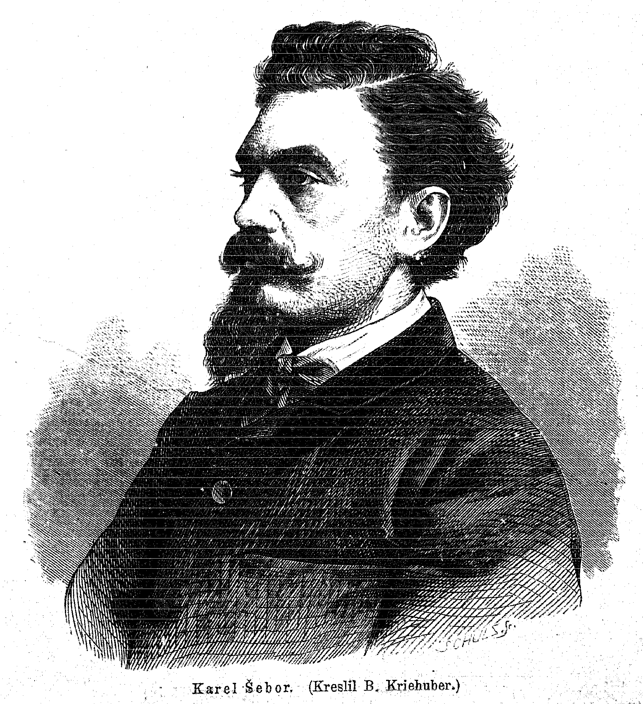 Portrait of Karel Šebor (1843 - 1903), Czech violinist and composer